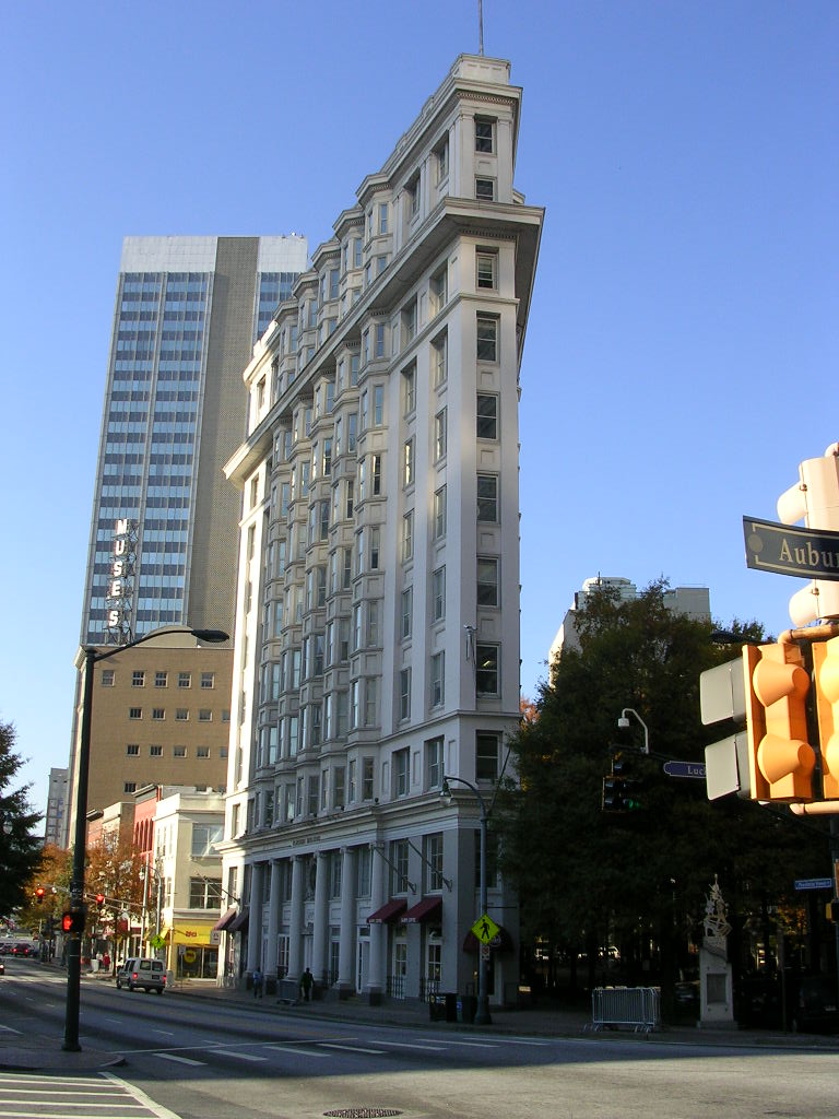 The Flatiron Building (Atlanta) (formally the "English-American Building") at 74 Peachtree Street, NW, Atlanta, Georgia, USA. Designed in 1897 by Bradford Gilbert in the Chicago style. National Register of Historic Places ref #76000626. 33°45′21″N 84°23′20″W / 33.75583°N 84.38889°W